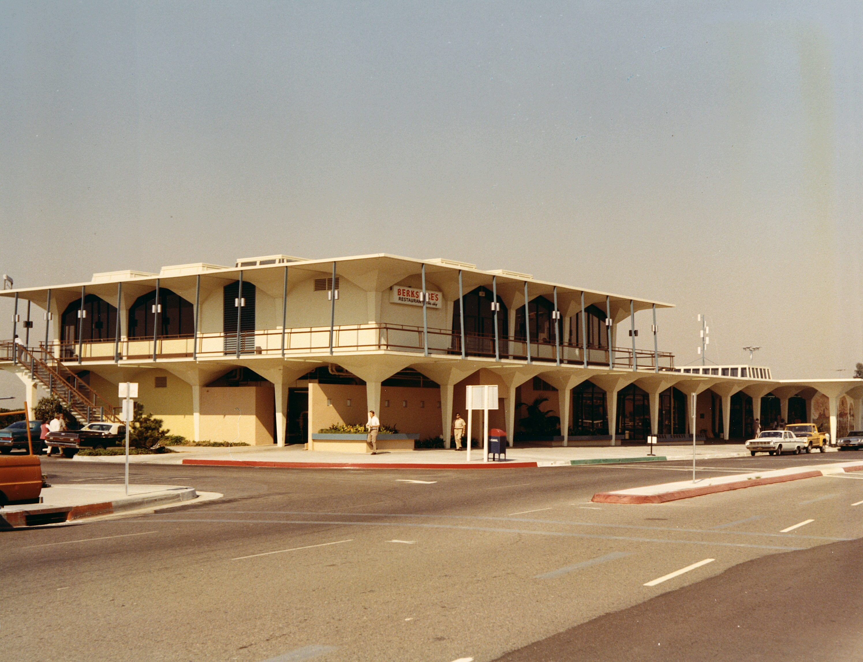 There are no known copyright restrictions on this image. All future uses of this photo should include the courtesy line, "Photo courtesy Orange County Archives." Comments are welcome after reading our Comment Policy .